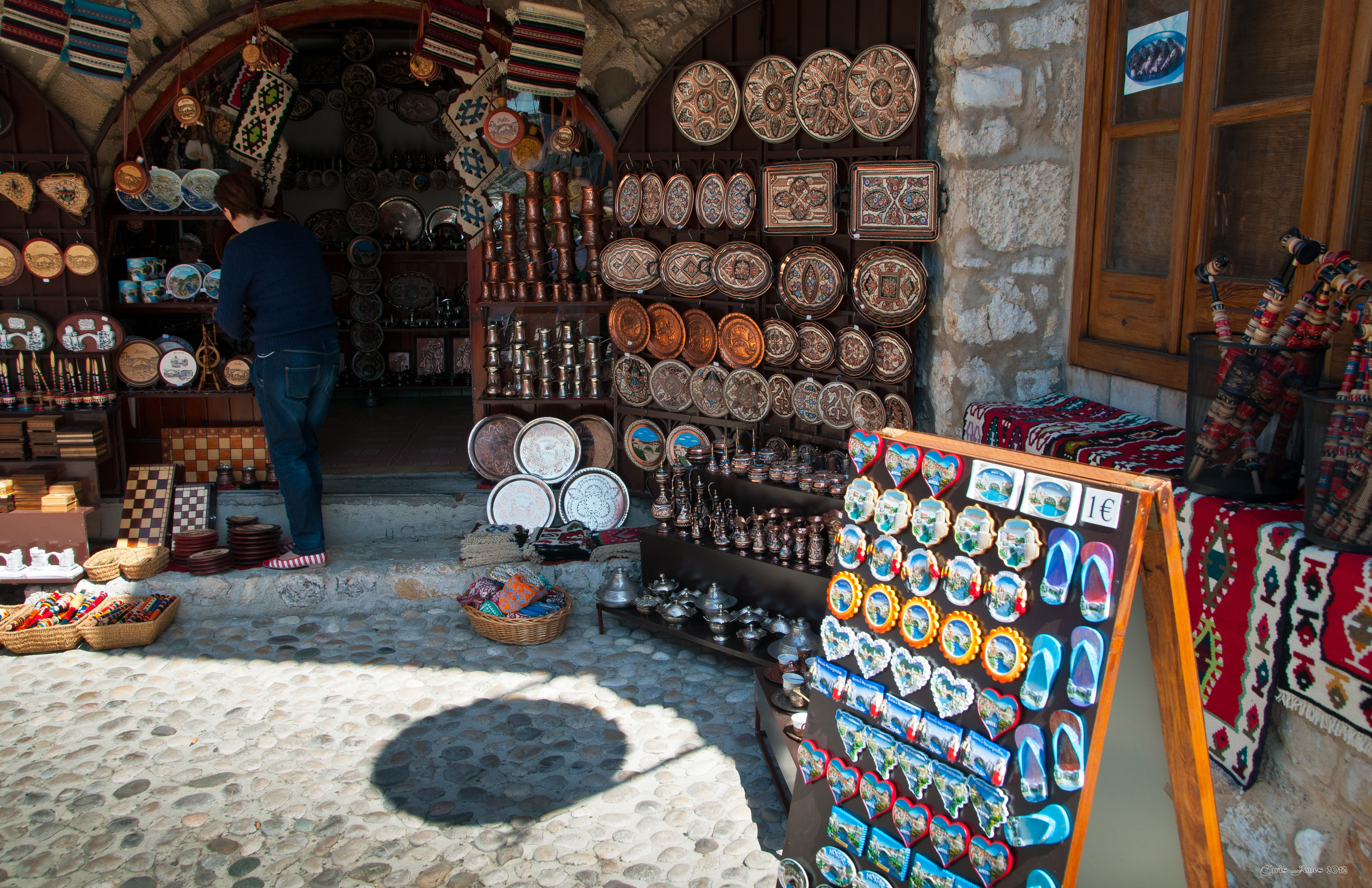 Mostar - Souvenir Shop